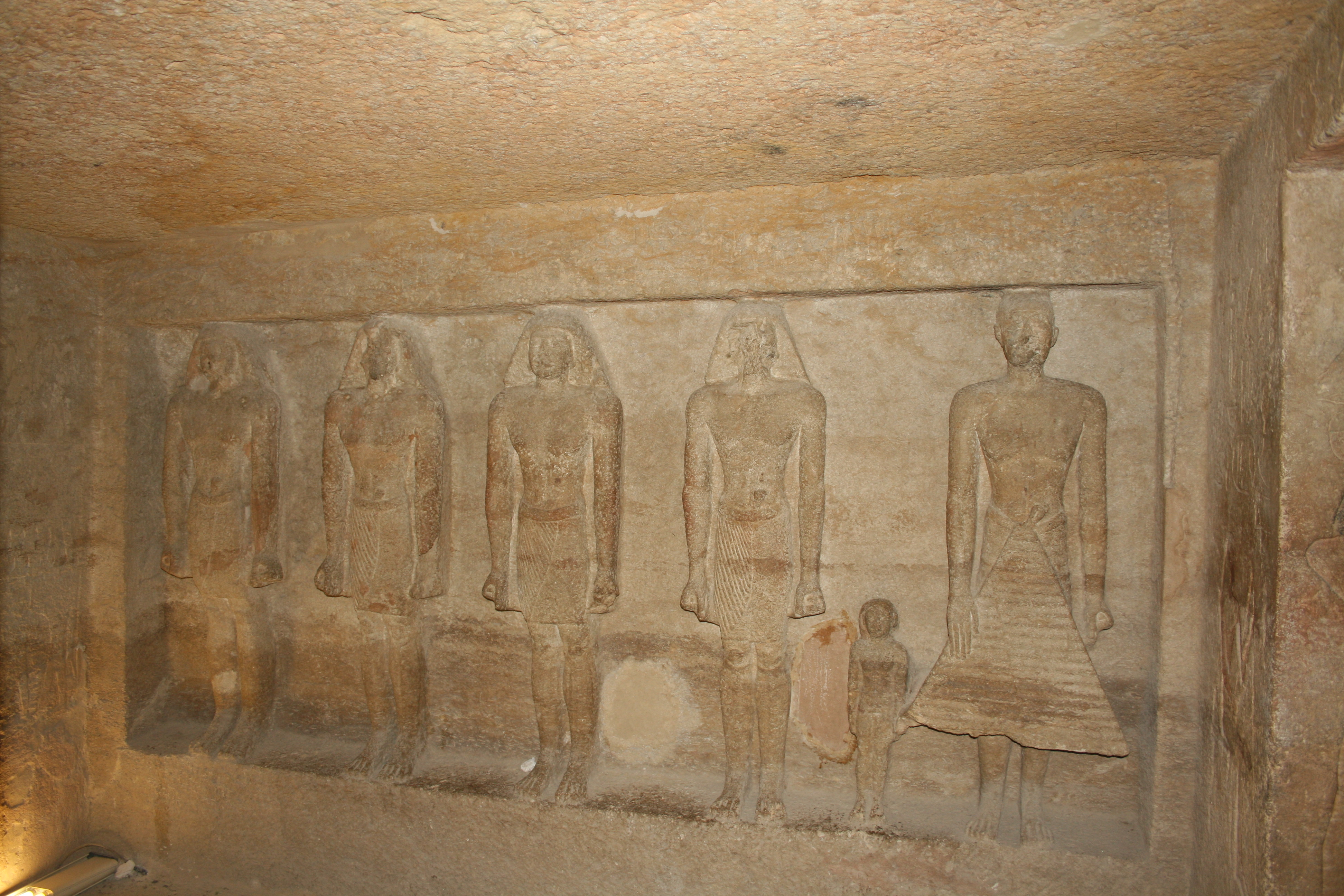 Mastaba of Idou (G 7102), Giza, Egypt